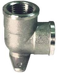 Water outlet